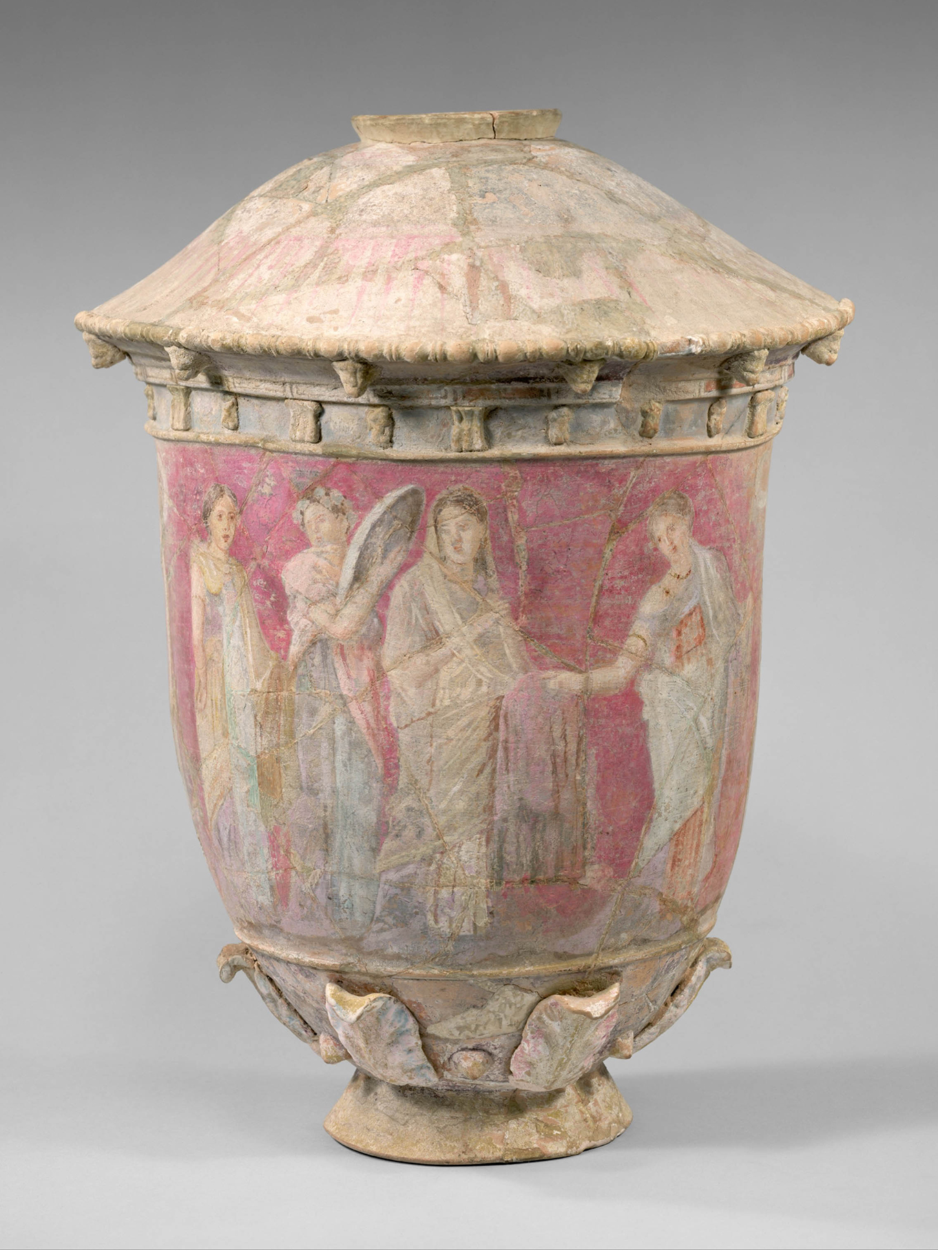 Terracotta vase made for the tomb (the lid fixed onto the body). Centuripe, Sicilian hellenistic colony, 3rd–2nd century B.C. H. 39.4 cm. Polychromy executed after firing : a bride surrounded by attendants. The Metropolitan Museum of Art.